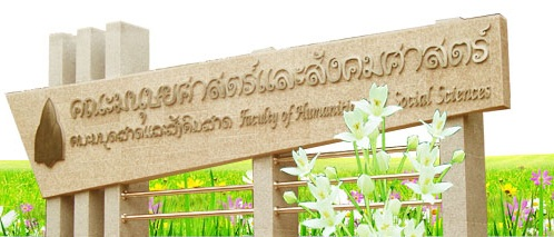 Facultad de Humanidades